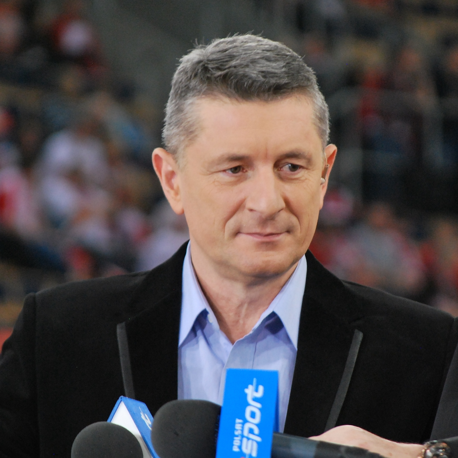 FIVB World Championship European Qualification Women Łódź January 2014. Ireneusz Mazur - former volleyball player and volleyball coach from Poland